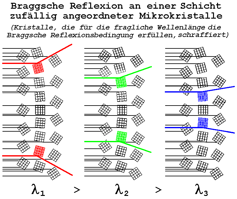 Bragg's reflection on a layer of randomly ordered micro-crystals